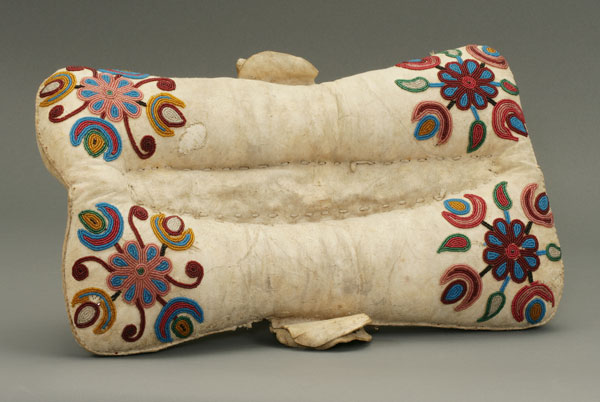 Saddle Pad c 1900 This Nez Perce saddle pad is made of buckskin, stuffed with grass, though, sometimes buffalo hair was used. The saddle is laced to form a center and thigh pads. There are buckskin tabs on each side to attach the cinch and sometimes short stirrups were added. It is beaded in a typical Columbia Plateau floral design with seed beads. These saddles were used by men and were popular among the Blackfoot, Nez Perce, Atsina, Mandan, Assiniboin and Hidatsa. There are descriptions of pad saddles being used on buffalo hunts on the Plains. They were sometimes taken, unpadded, on horse-stealing expeditions and used after the horses were stolen. Buckskin, glass beads, and grass. L 43.0 , W 24.0 cm Nez Perce National Historical Park, NEPE 1907